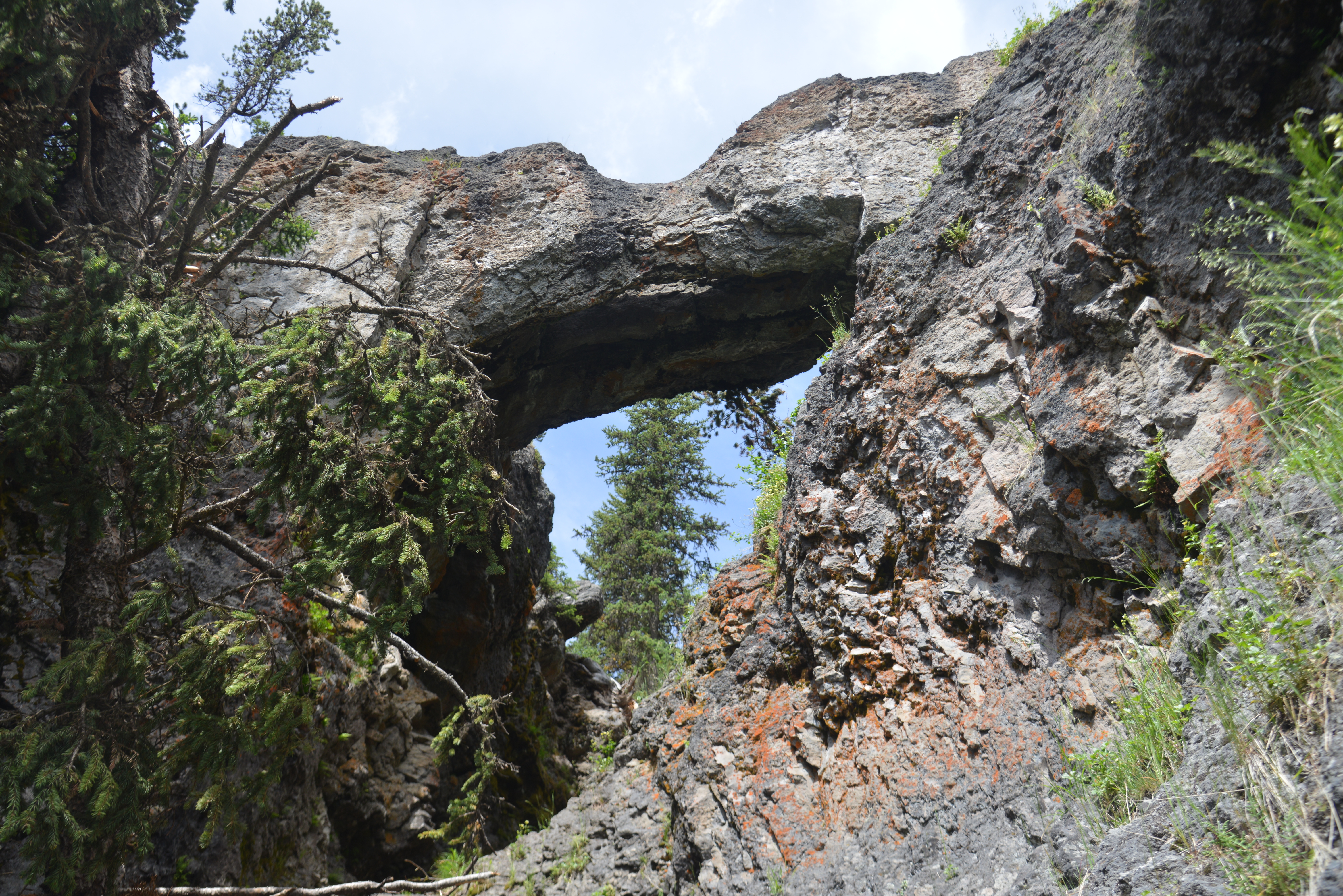 Looking up at Yellowstone Natural Bridge, a 51 foot tall arch created by Bridge Creek eroding the rock. Natural Bridge Trail, Bridge Bay, Yellowstone National Park, WY